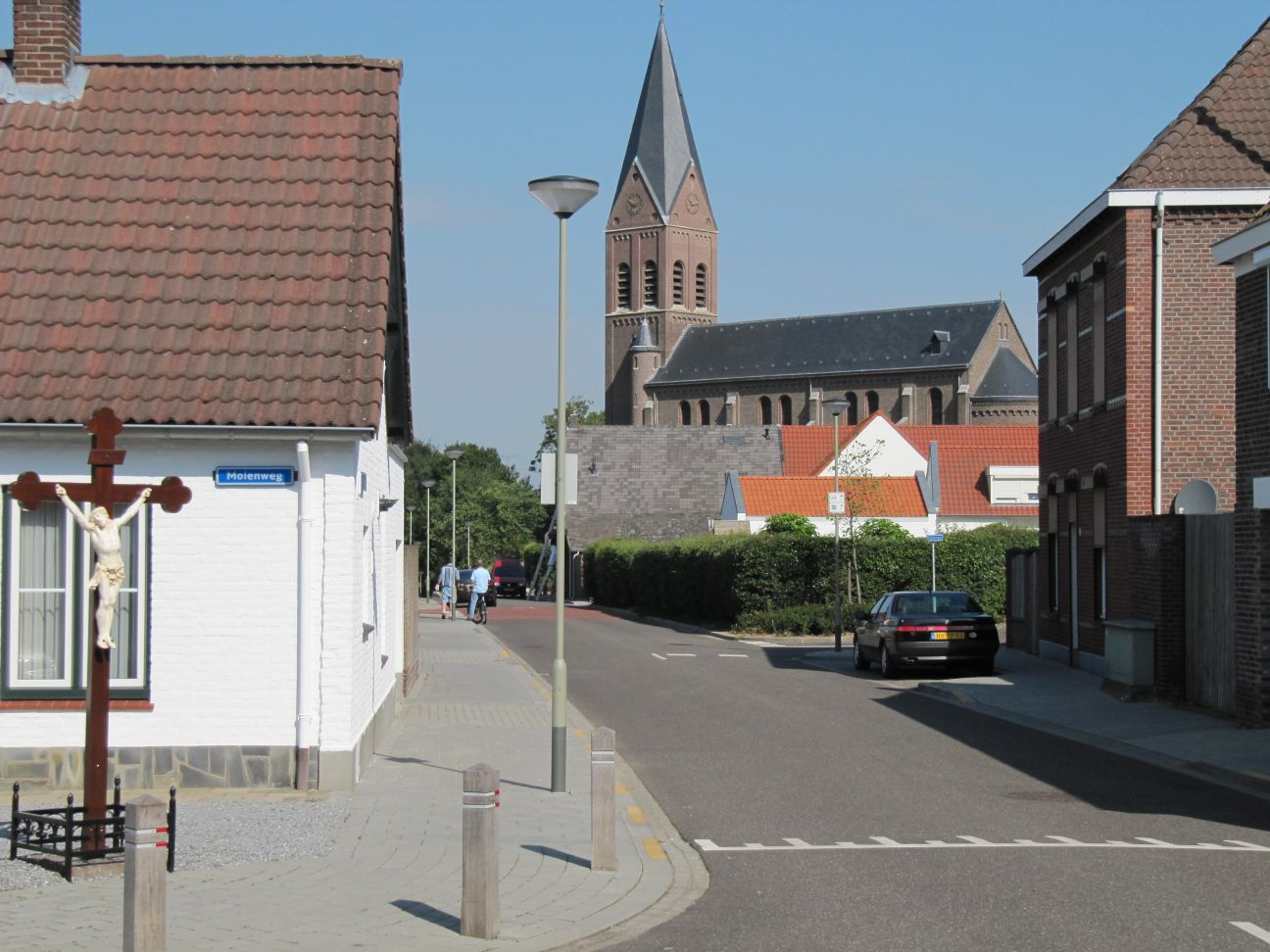 Linne (Maasgouw), NL, Kerk St. Martin